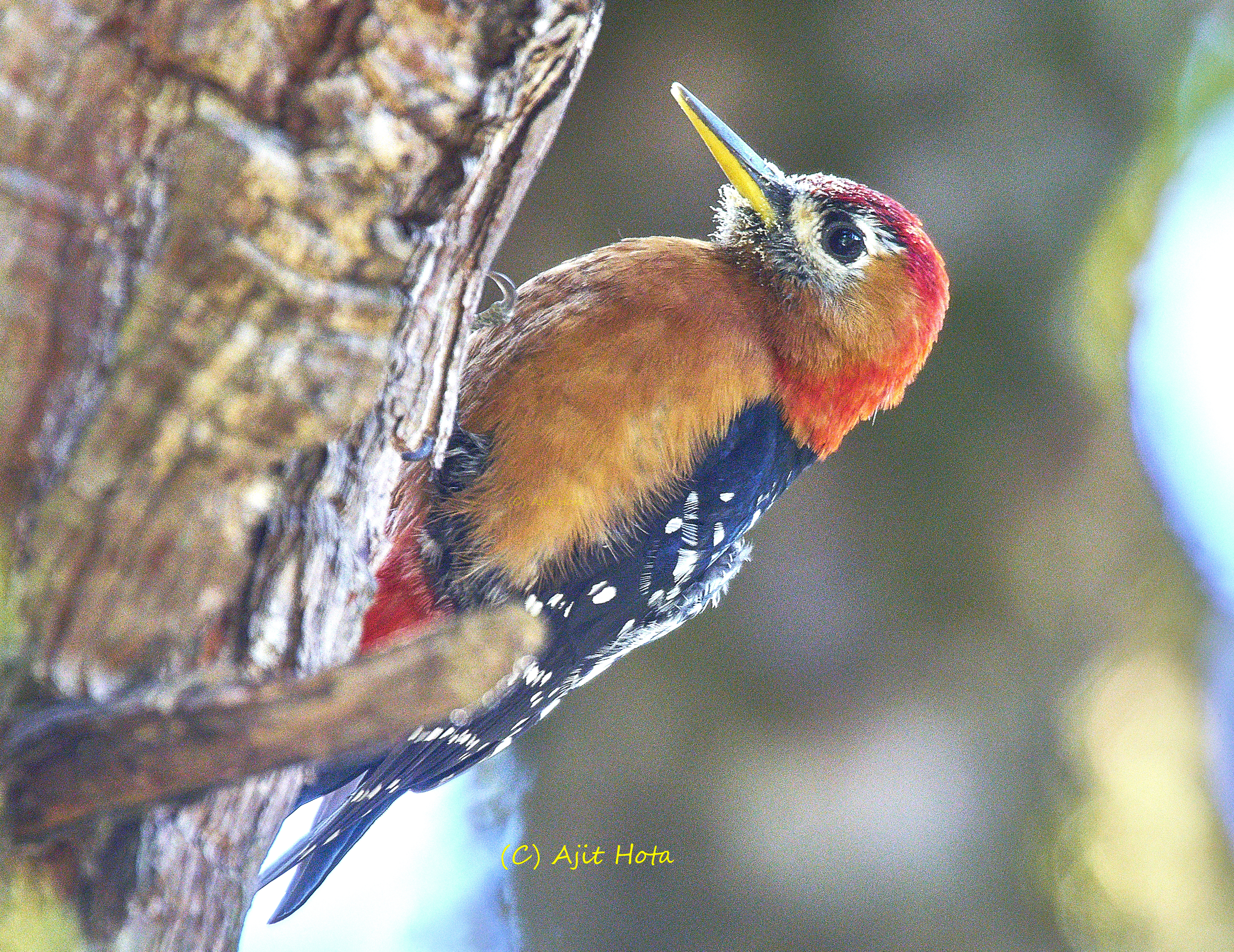 The rufous-bellied woodpecker in dense forest of Himalayas